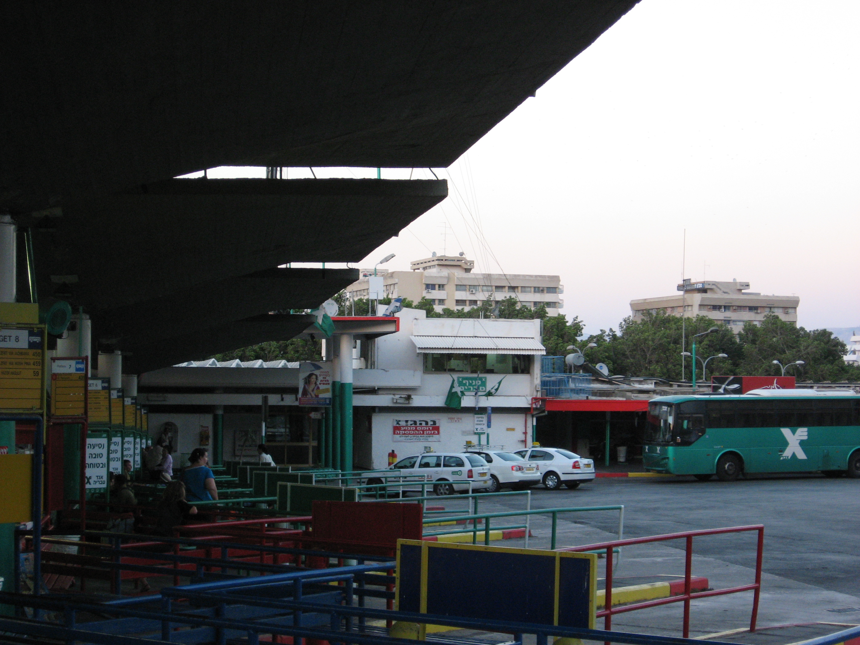 A photograph of the Tiberias Central Bus Station.